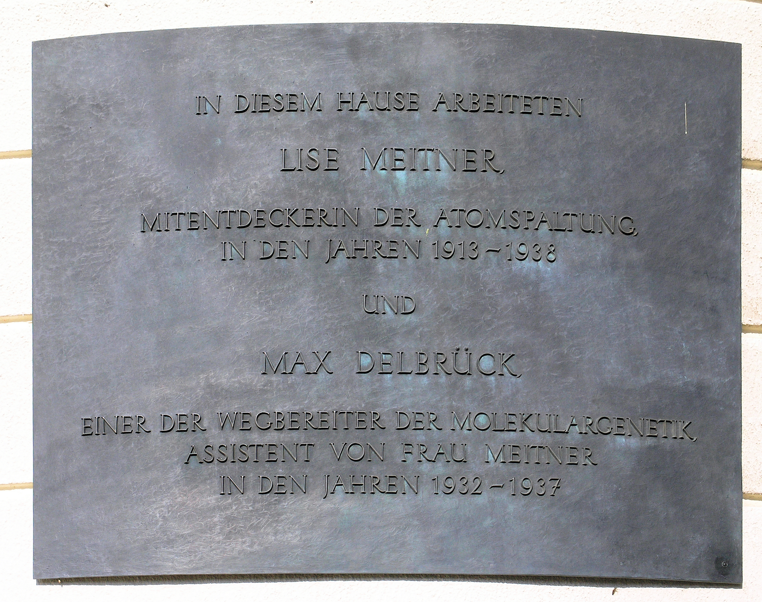 Memorial plaque, Lise Meitner, Thielallee 63, Berlin-Dahlem, Germany Koordinate:52°26′52″N 13°17′4″E / 52.44778°N 13.28444°E